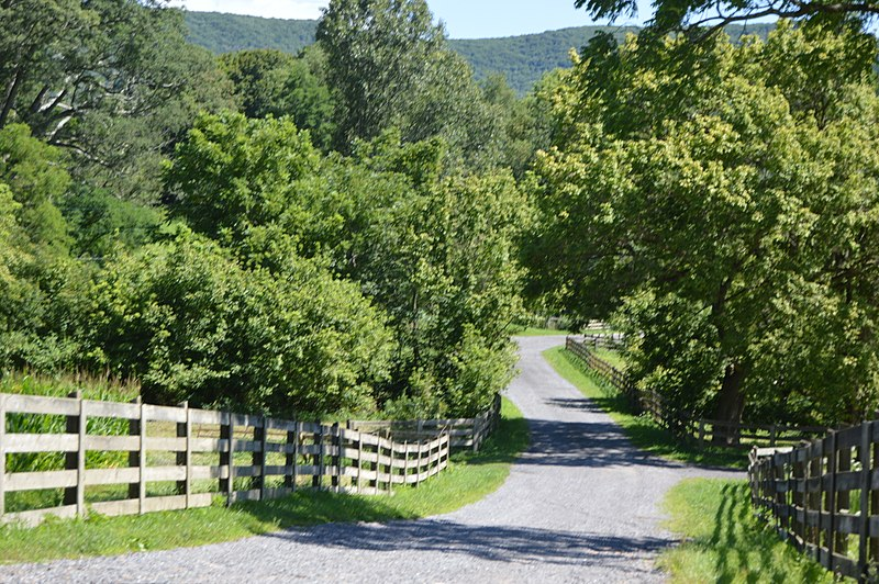 Entrance to the driveway for the Massie House, located off U.S. Route 220 northeast of Covington in Alleghany County, Virginia, United States. The property is listed on the National Register of Historic Places.